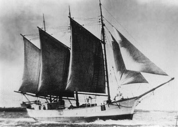 Ingo during the war-years. (WWII) This is an image of the protected Swedish ship Ingo, with call sign SIXW .